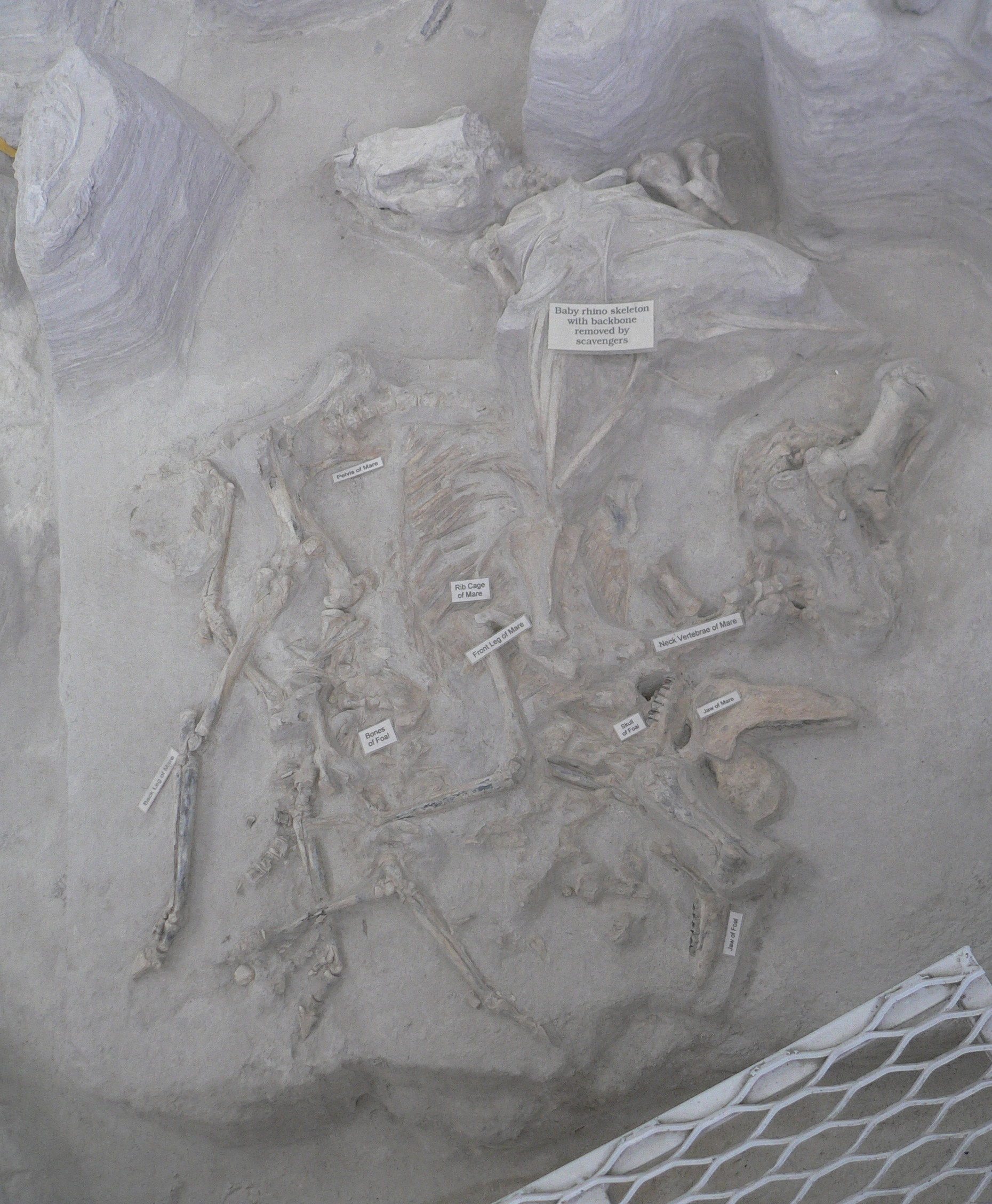 Ashfall Fossil Beds in Antelope County, Nebraska: fossils of Neohipparion affine mare, foal, and baby Teleoceras rhino inside Hubbard Rhino Barn.